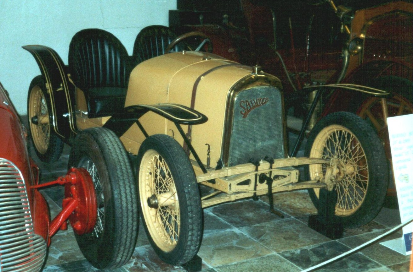 Salvador 1922 (Country of origin: Spain)